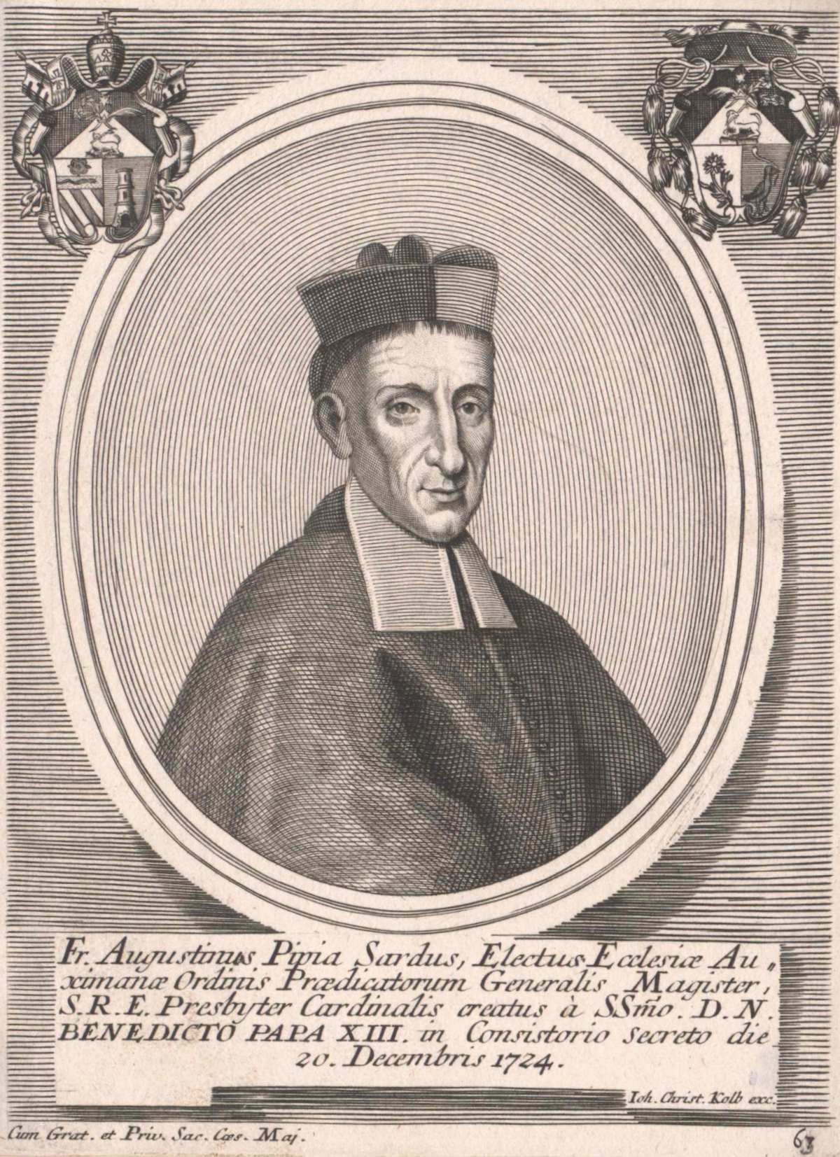 Portrait of Agustín Pipia (1660-1730)